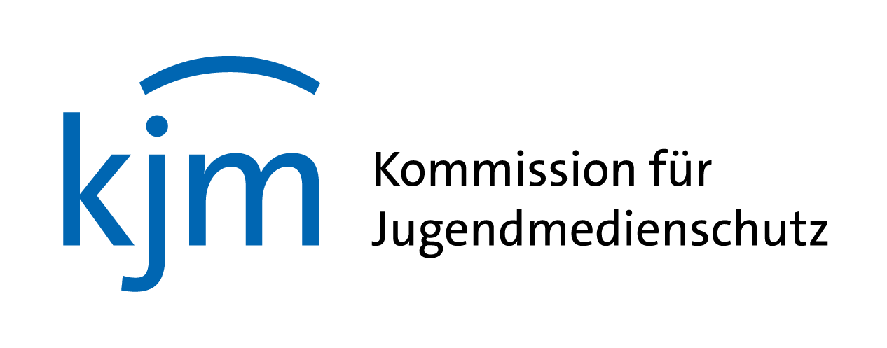 Logo Kommission für Jugendemedienschutz